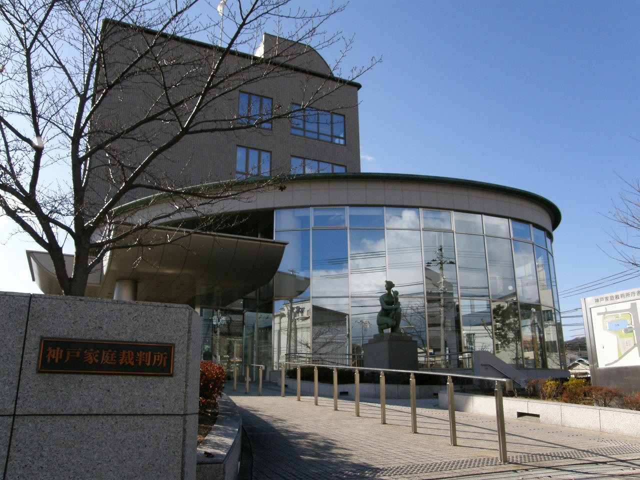 神戸家庭裁判所KOBE-KASAI